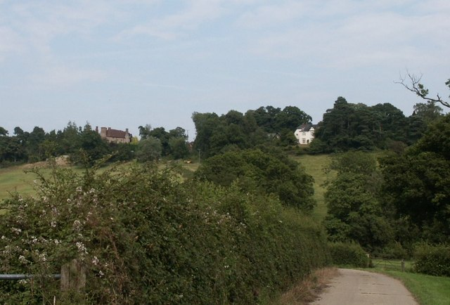 Holmshurst Looking up the Farm Lane, towards Holmshurst, Sussex.